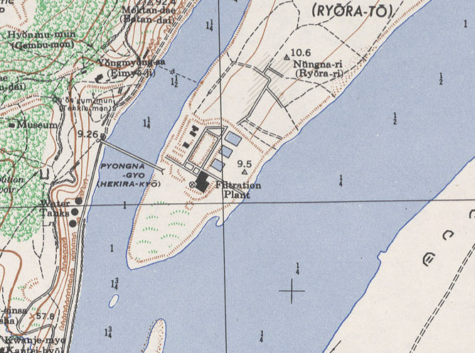 1946 Map of Pyongyang (Heijo), North Korea by the Army Map Service, U.S. Army